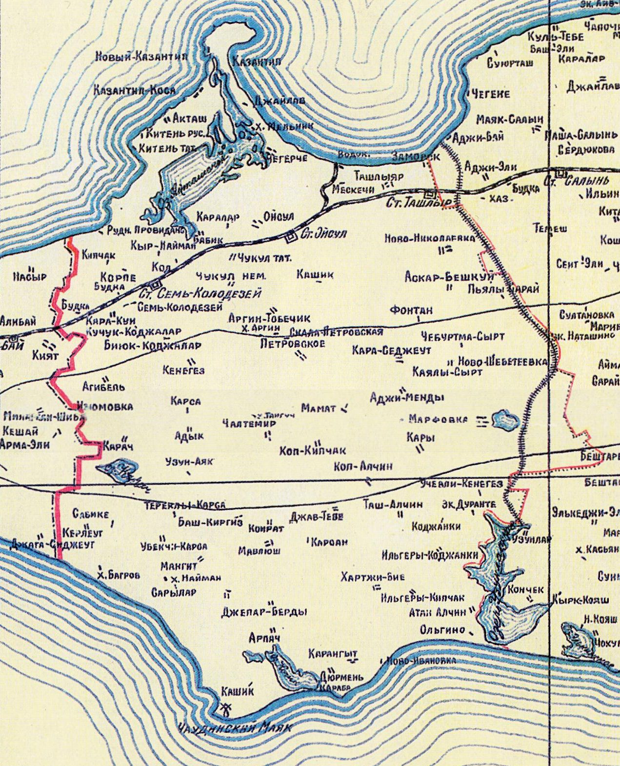 Petrovsky district, Crimea. 1922